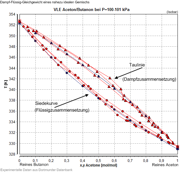 Vapour-liquid equilibrium of an almost ideal mixture of acetone and butanone